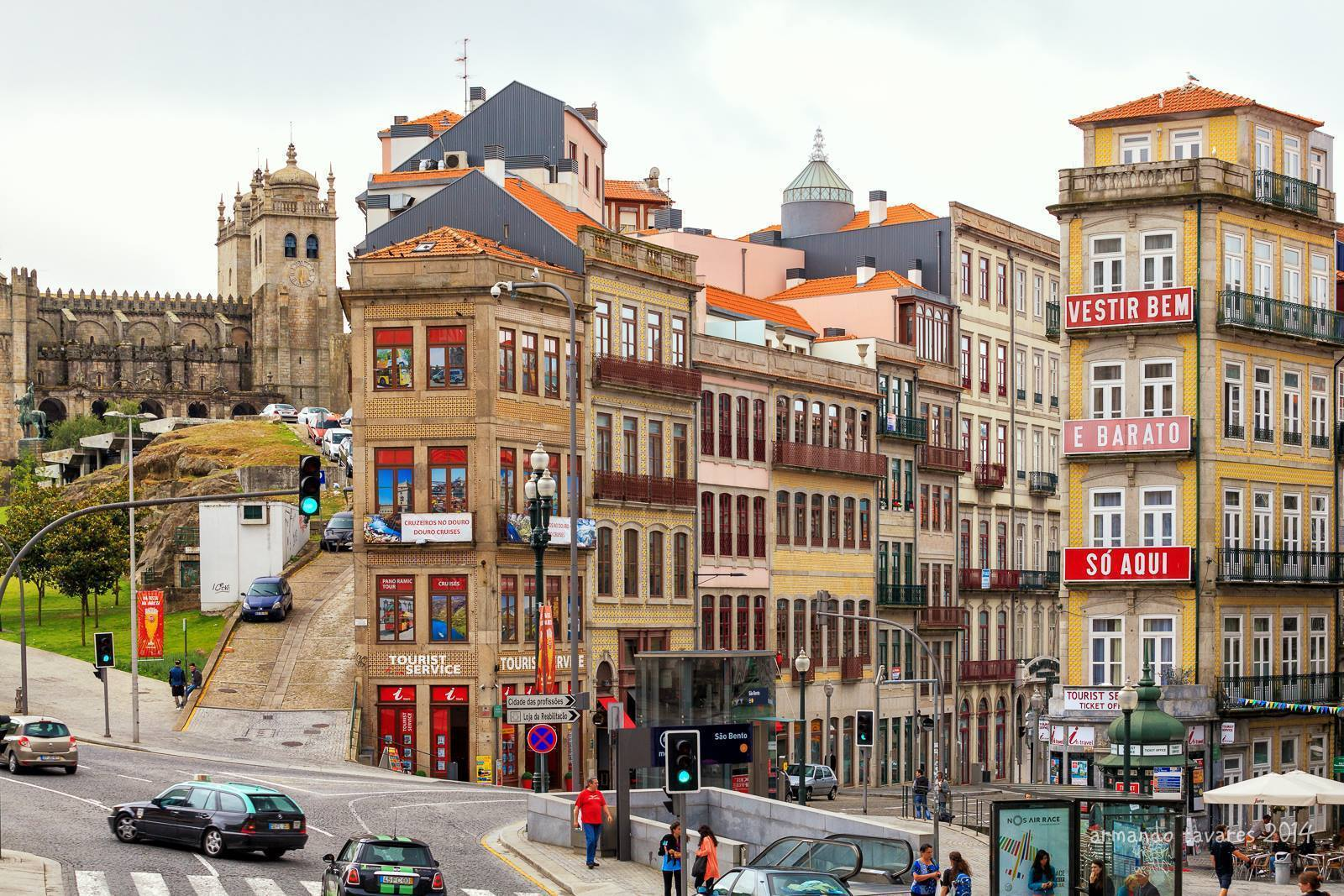 View of a street in Porto